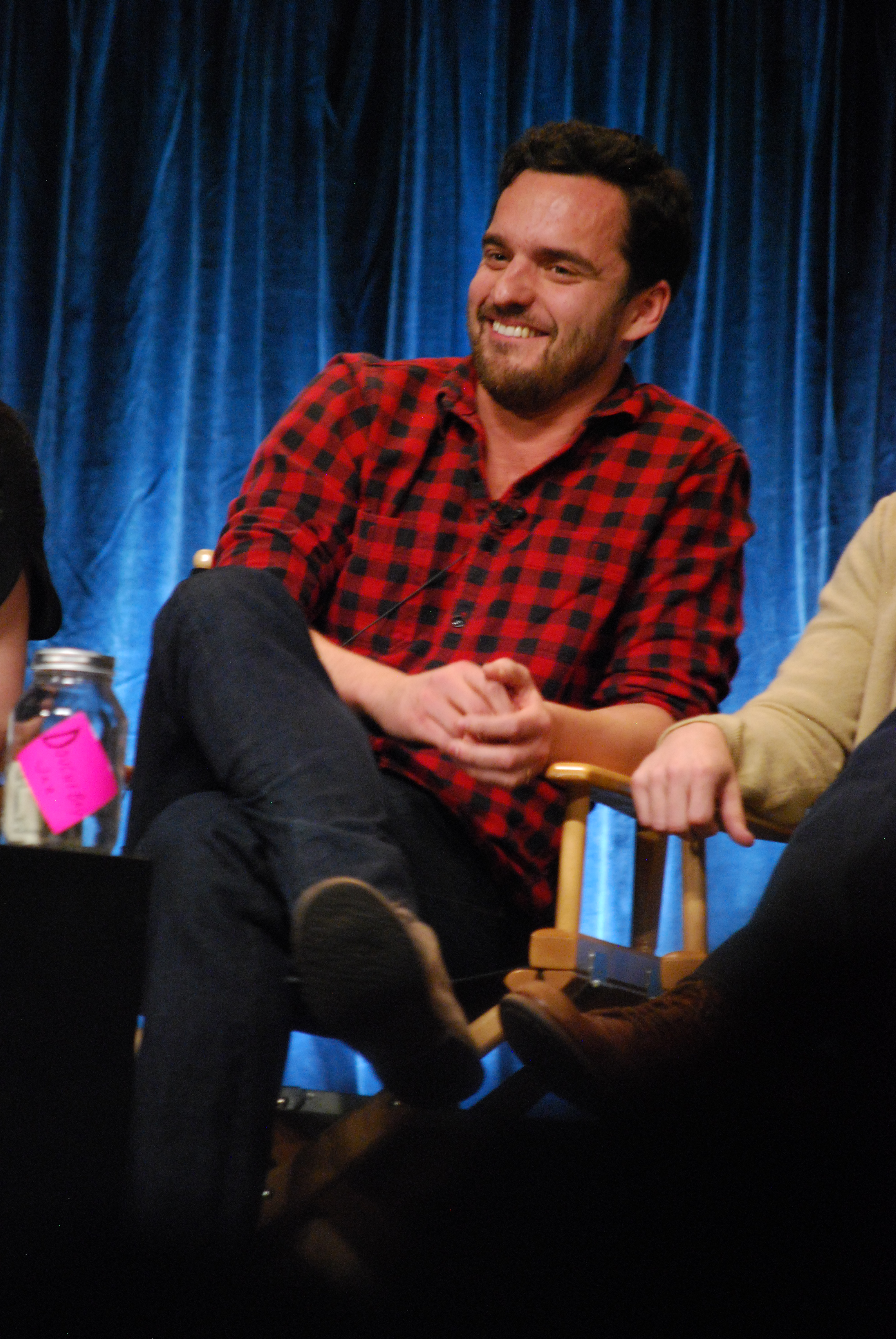 Jake Johnson